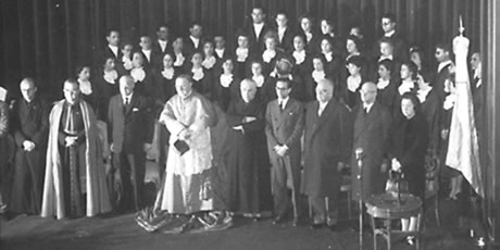 Foundational act, Unviersidad Católica de Buenos Aires